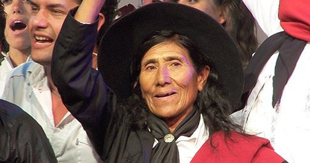 Eulogia Tapia en La Poma. Provincia de Salta